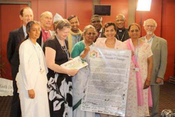 UN Climate Change Conference